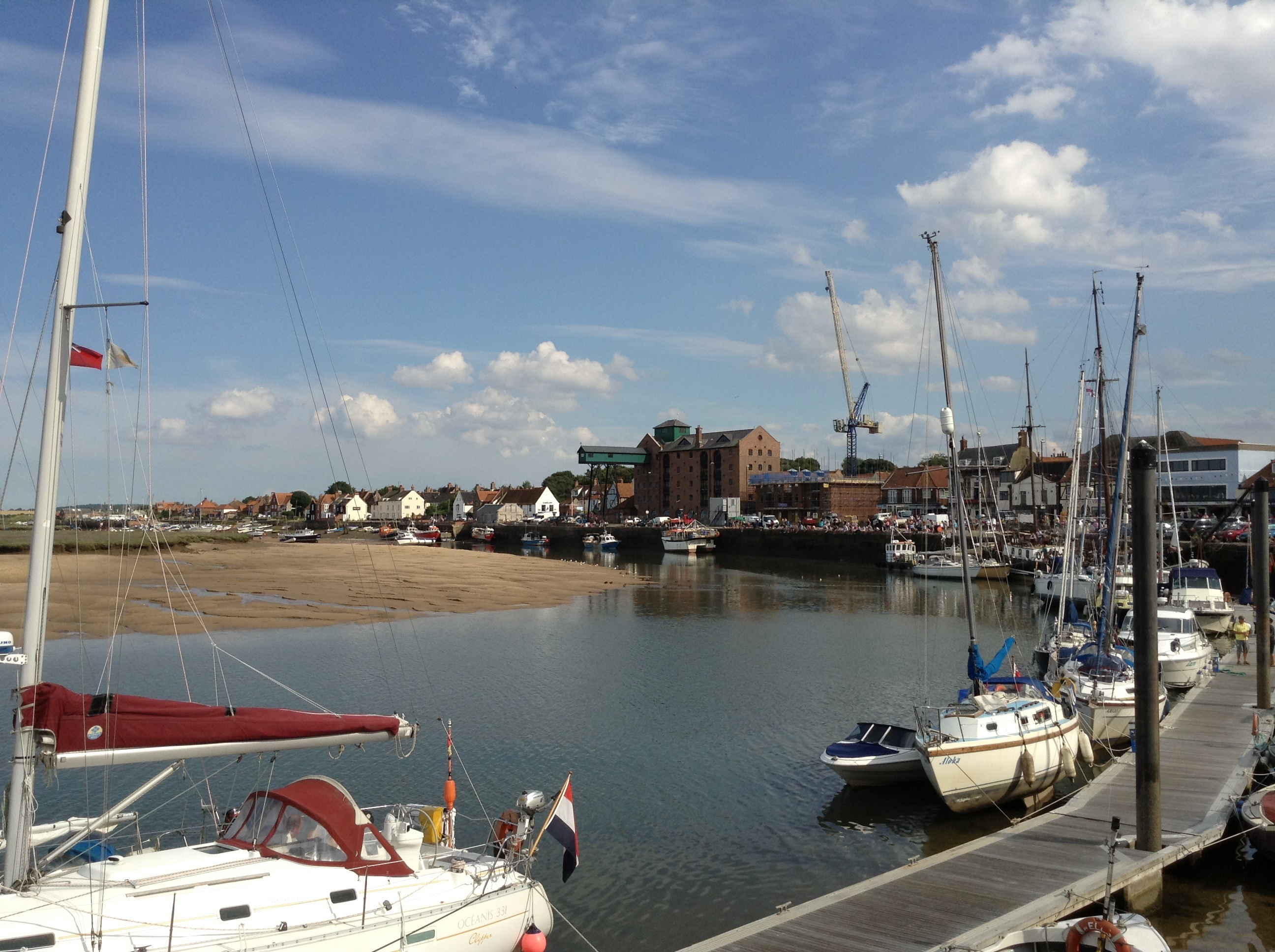 The Quayside at Wells in North Norfolk in August 2013!